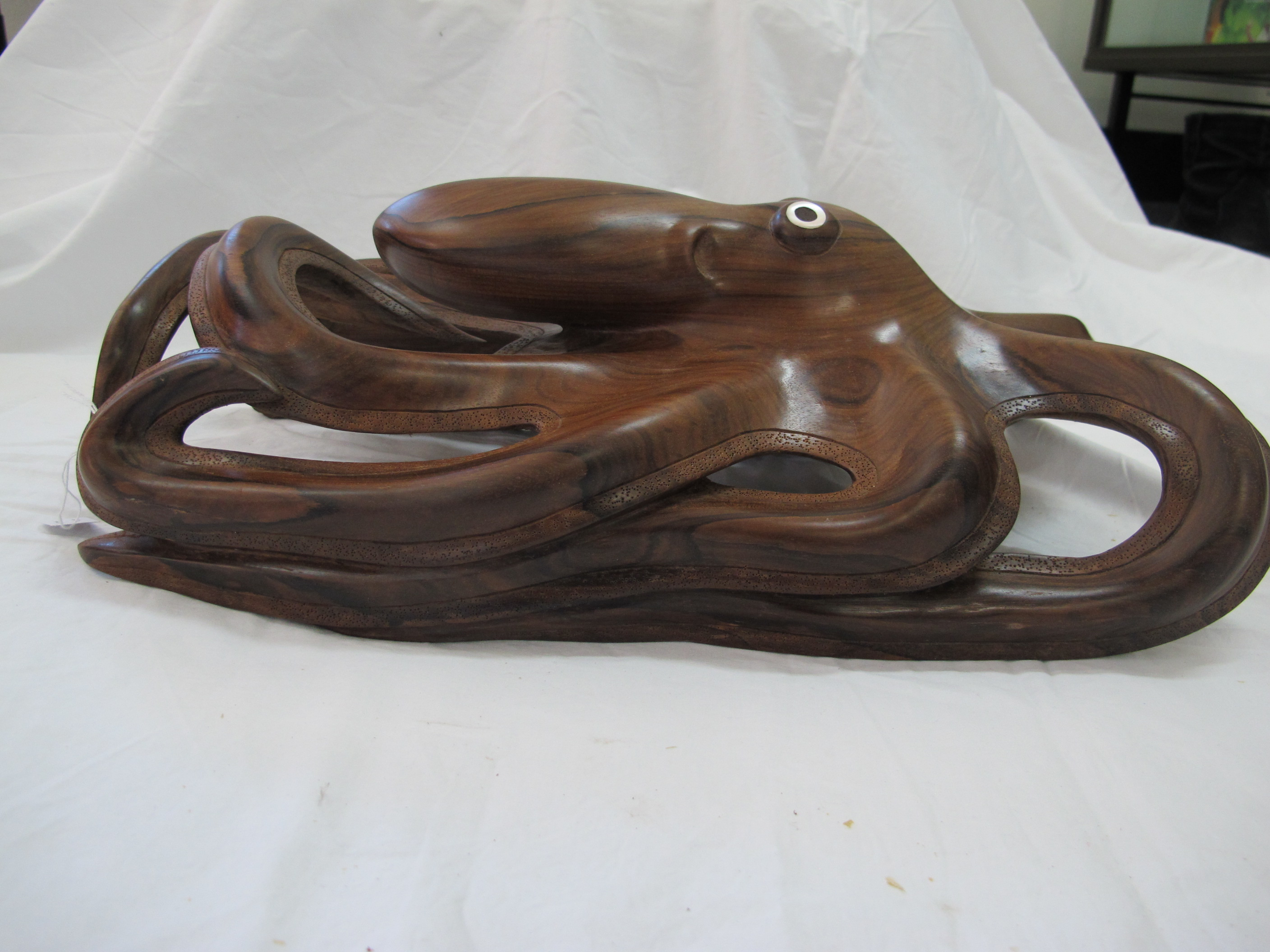 Octopus carving held in the South Sea Islands Museum in Cooranbong, New South Wales